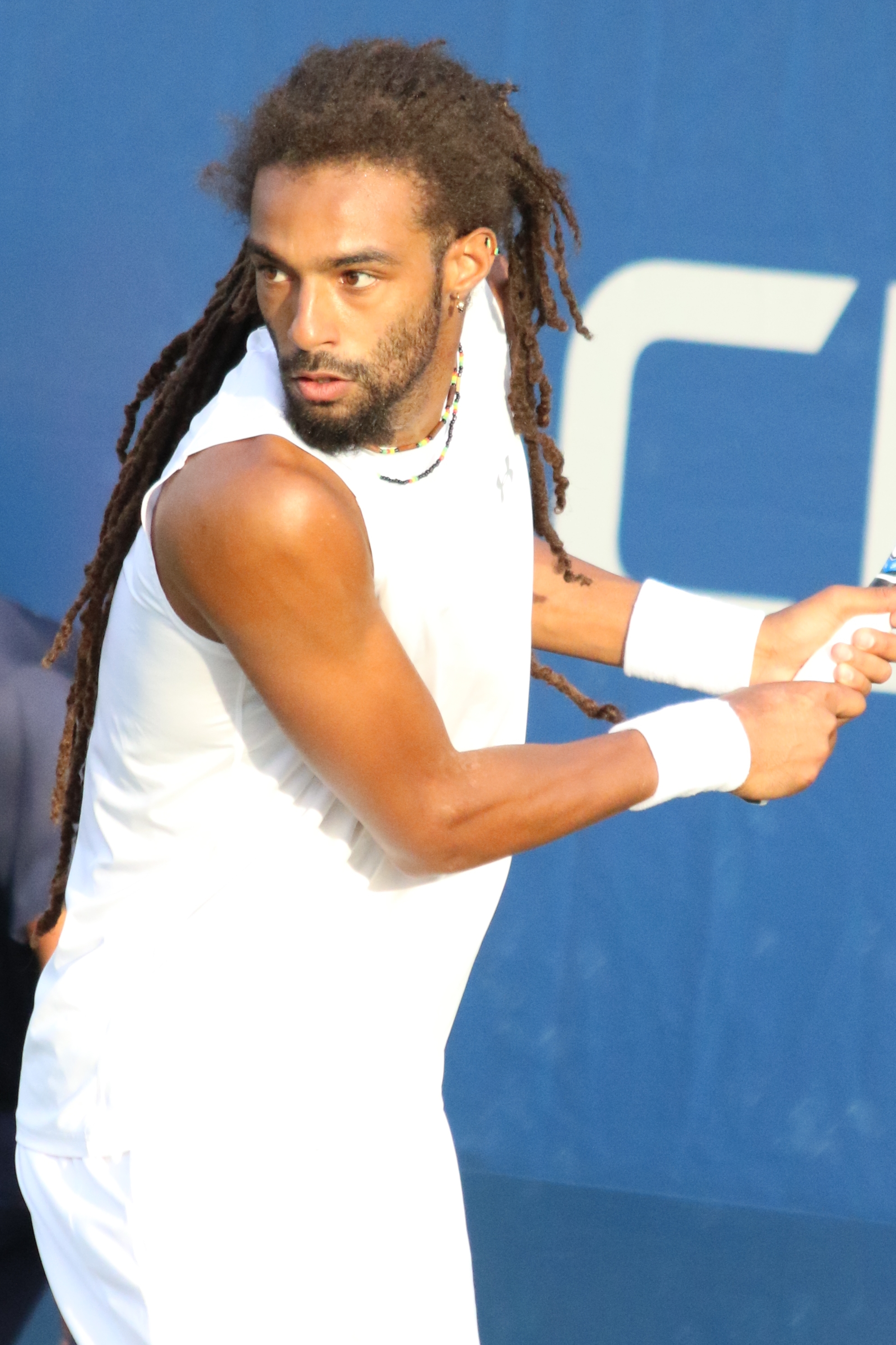 Brown US16 (2)